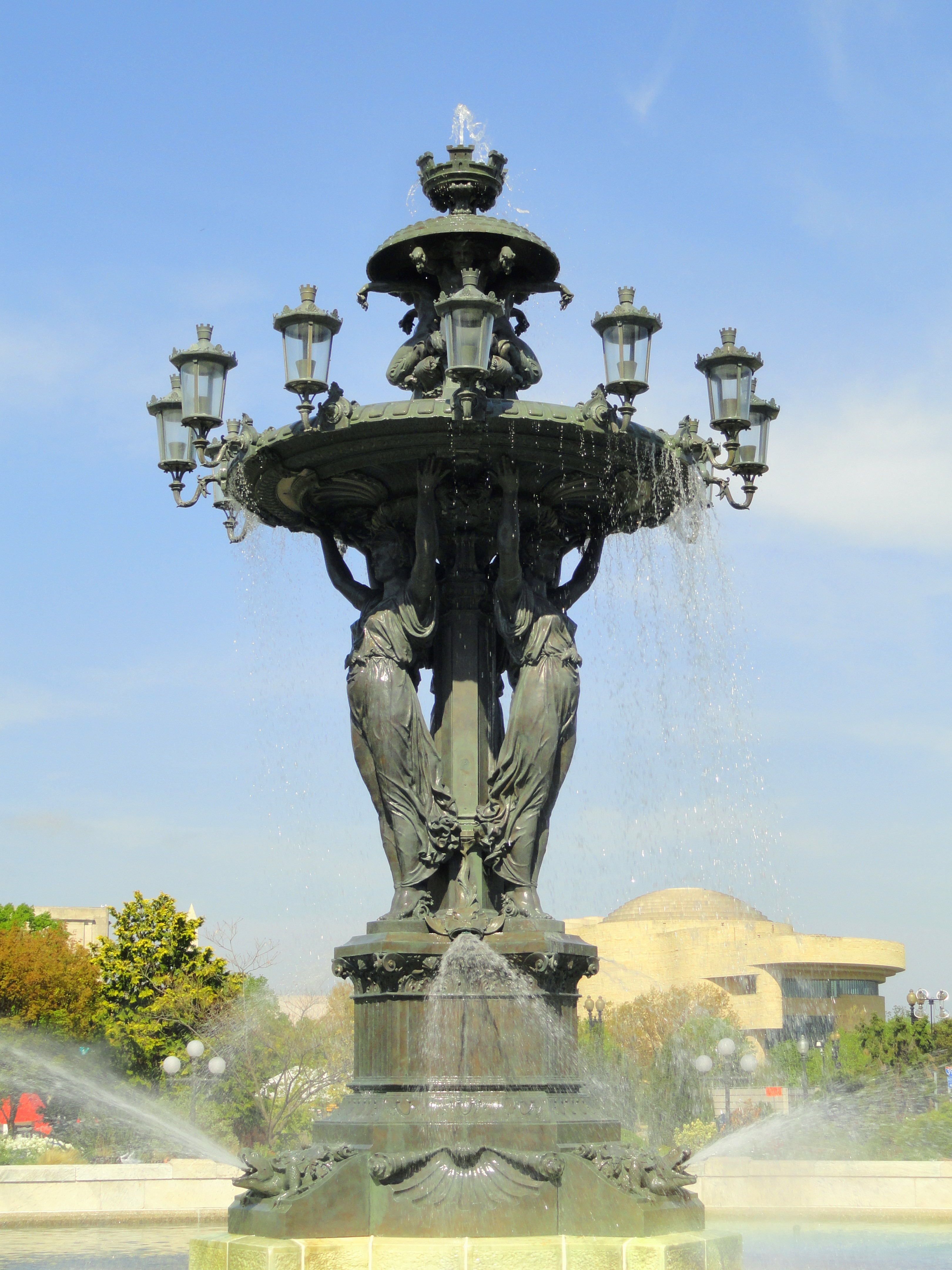 Bartholdi Fountain, Washington, DC, USA. This artwork is in the public domain because the artist died more than 70 years ago.